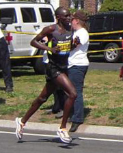 Kenyan runner Levy Matebo at Heartbreak Hill during the 2012 Boston Marathon. This photo is licensed under a Creative Commons license. Please credit Rob Larsen with a link to , if you use this photo anywhere. Thanks.